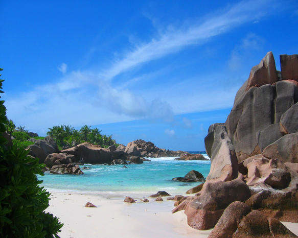 A beach on the Praslin Island, Seychelles